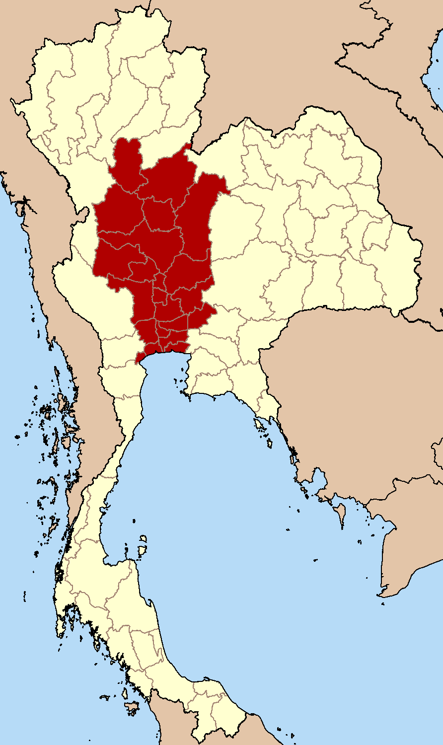 Map of Thailand highlighting the provinces of Central Thailand, based on the six-region system